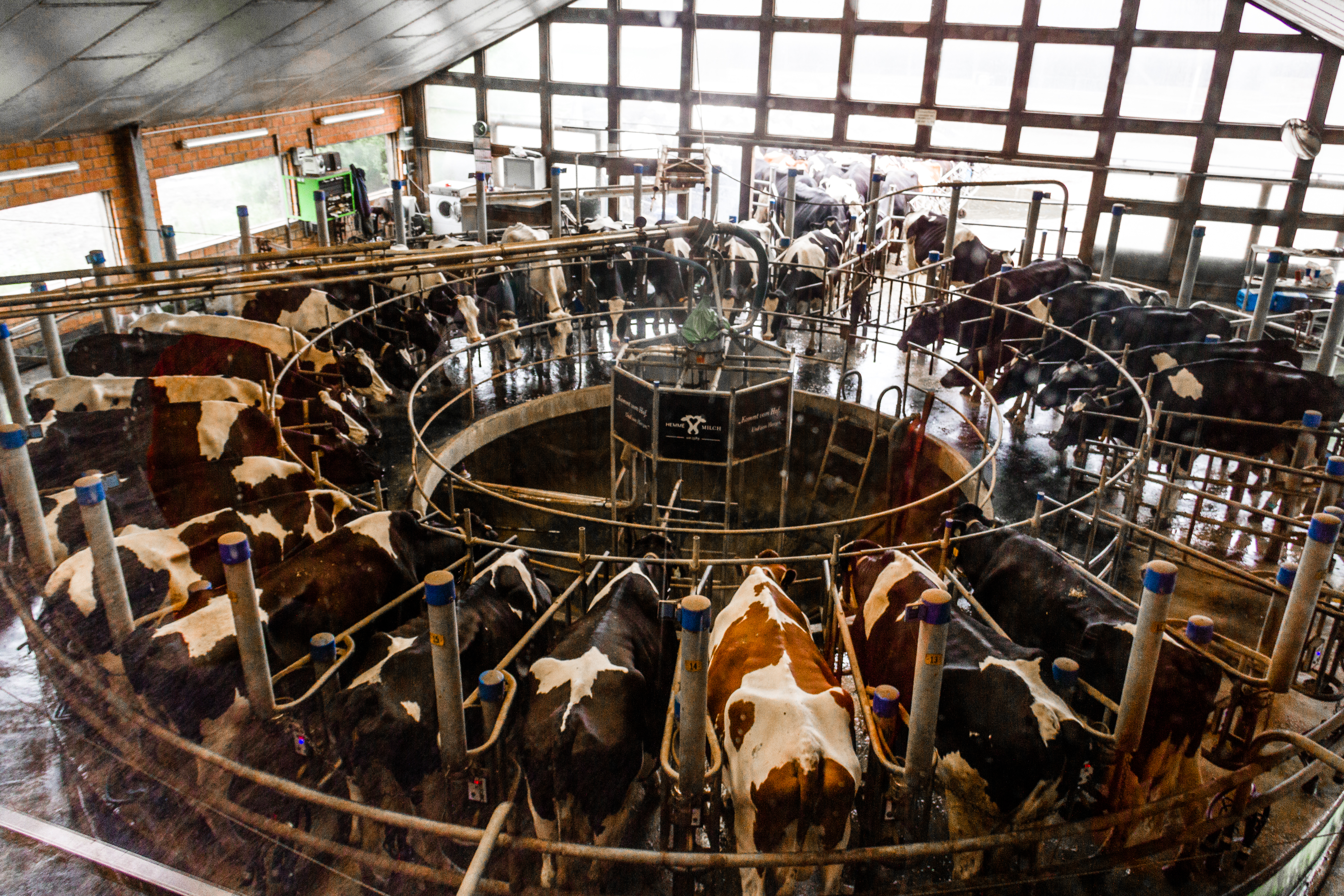 Rotary milking parlours at Hemme Milch Wedemark, Lower Saxony (photographed through the window).